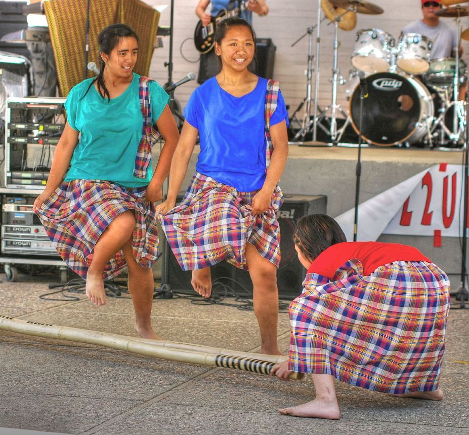 Shows two girls participating in Tinikling. Taken in Sacramento, California.